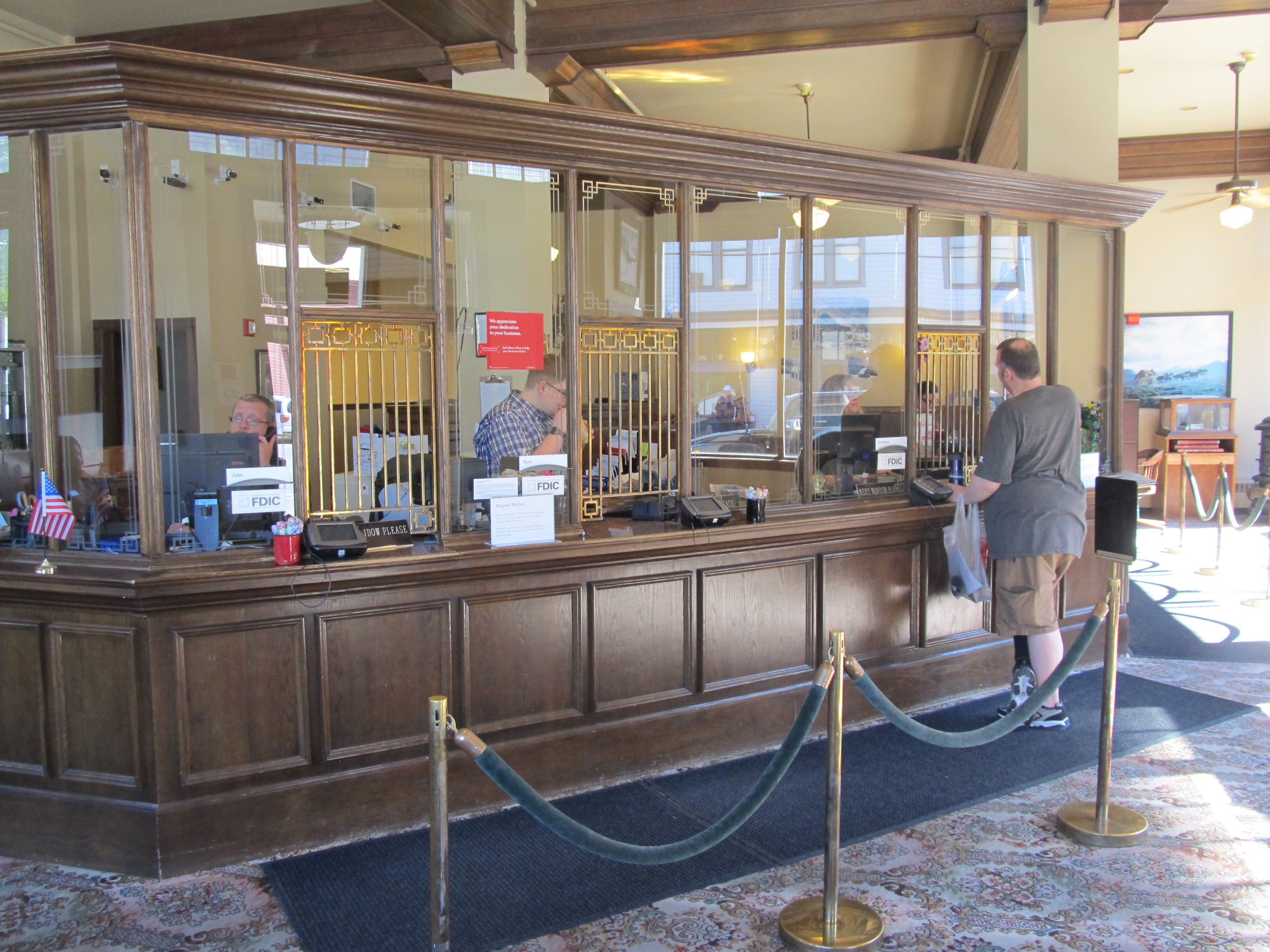 Wells Fargo Bank, Skagway, Alaska. The bank has décor fitting the historic nature of the town.